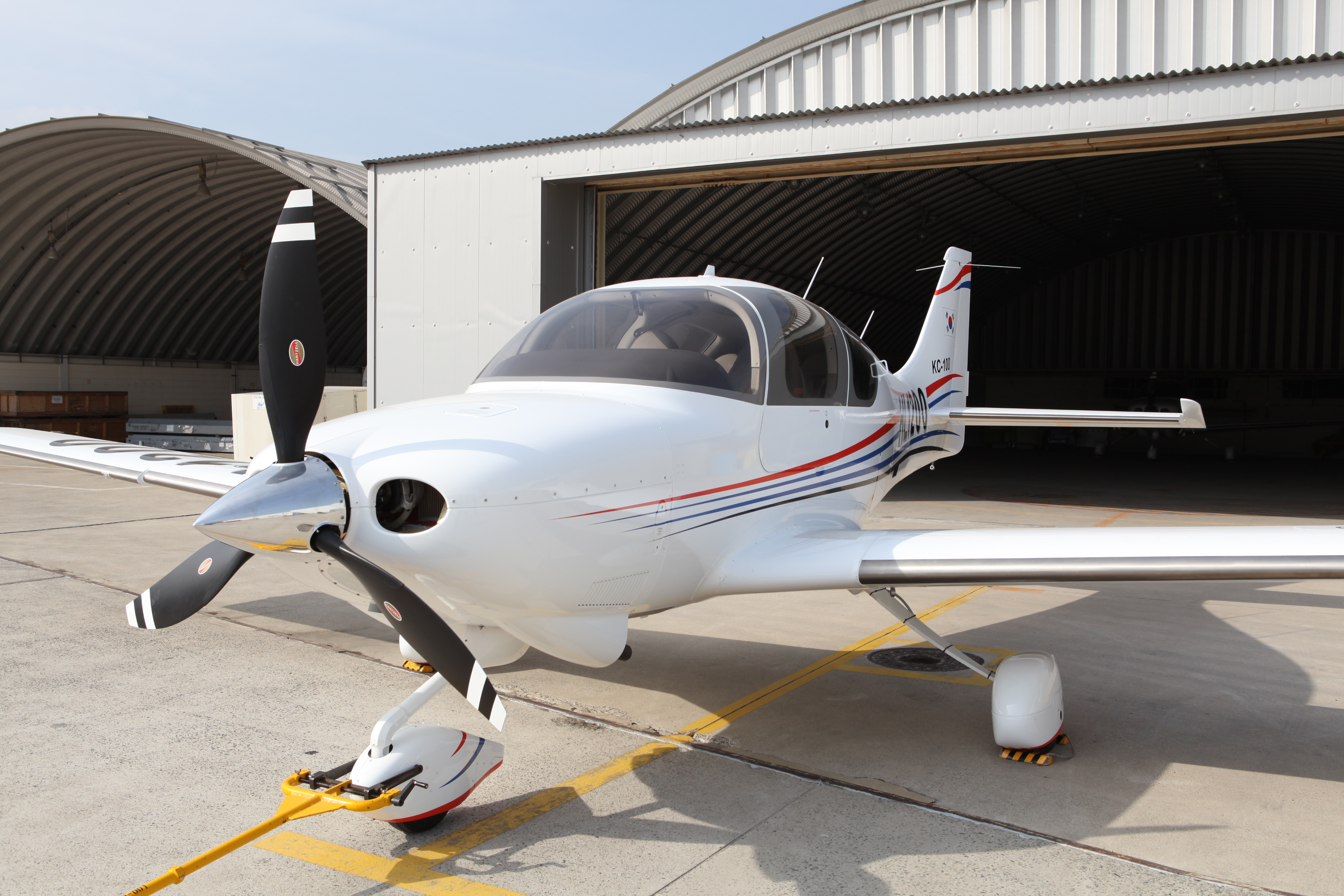 Korean Civil Aircraft KC-100 Naraon / Display in KAI / Photo by KAI 한국항공우주산업